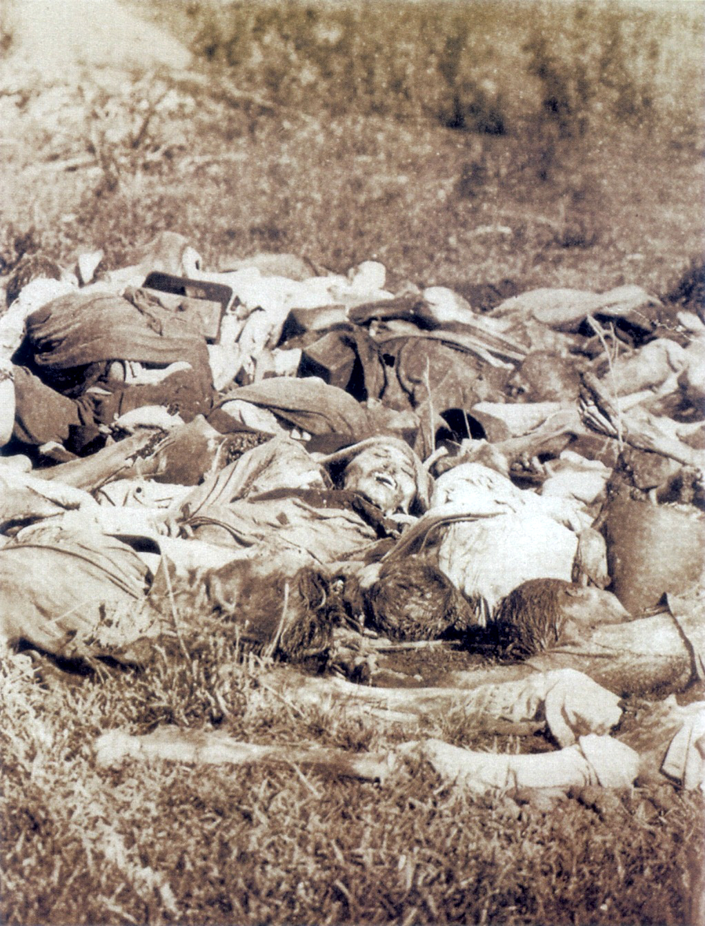 Remains of Paraguayan soldiers in the battlefield.